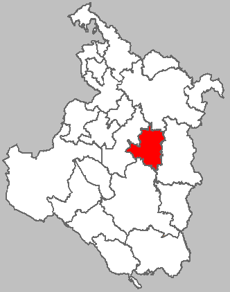 Location of municipality inside Karlovac County